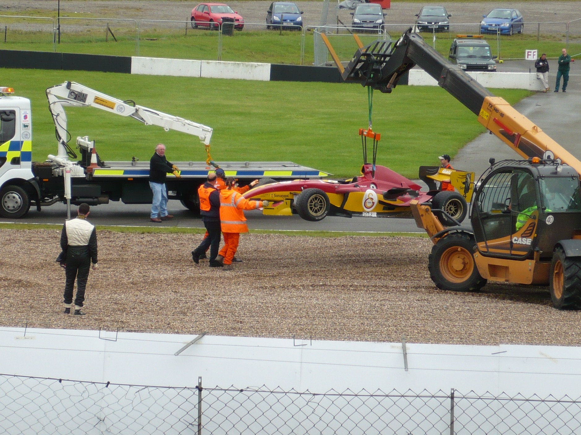 Scott Mansell next to his stranded Galatasaray S.K. car in the third practice session of the 2009 Donington Park round of Superleague Formula.